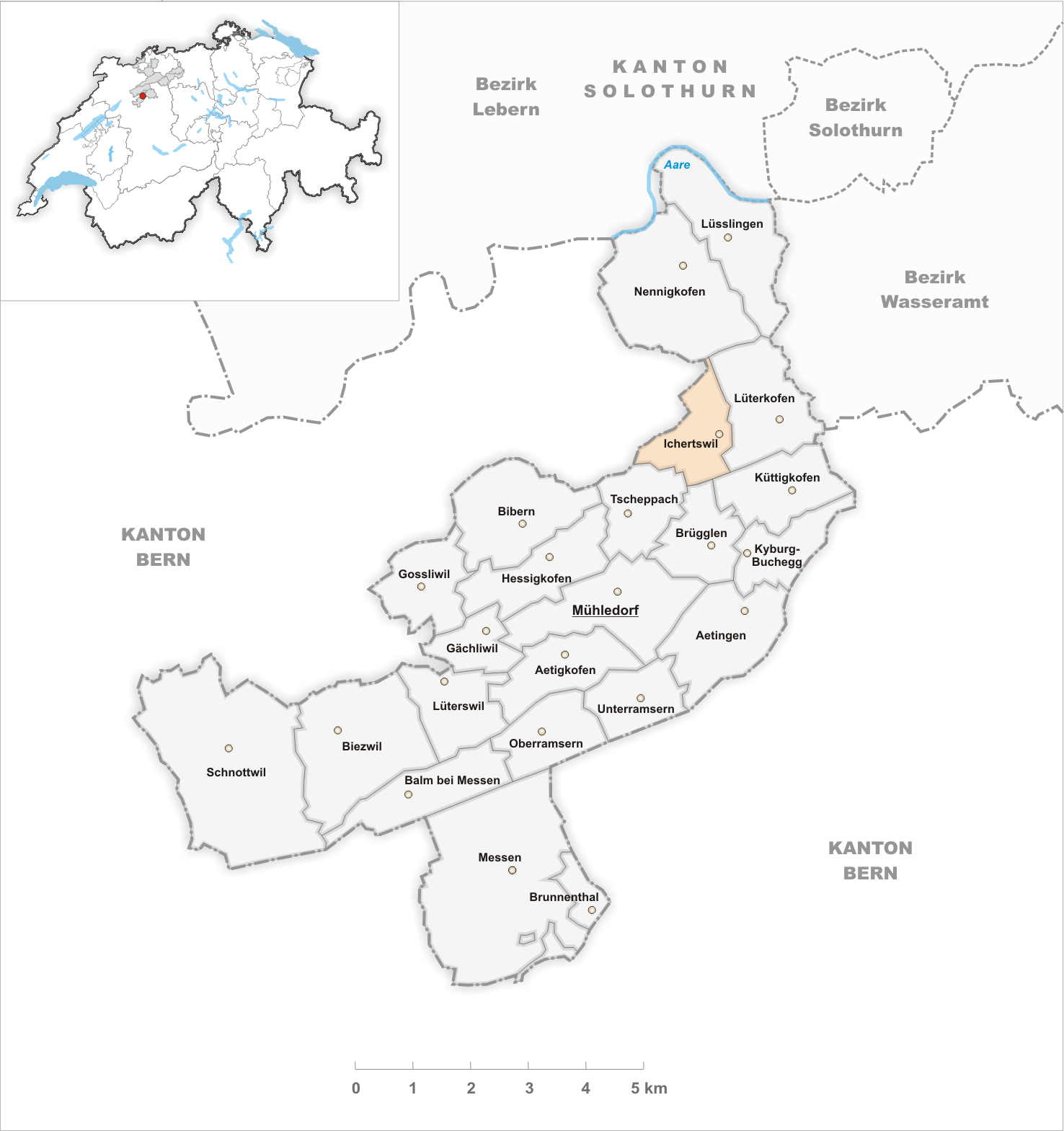 Municipality Ichertswil Artist: Tschubby